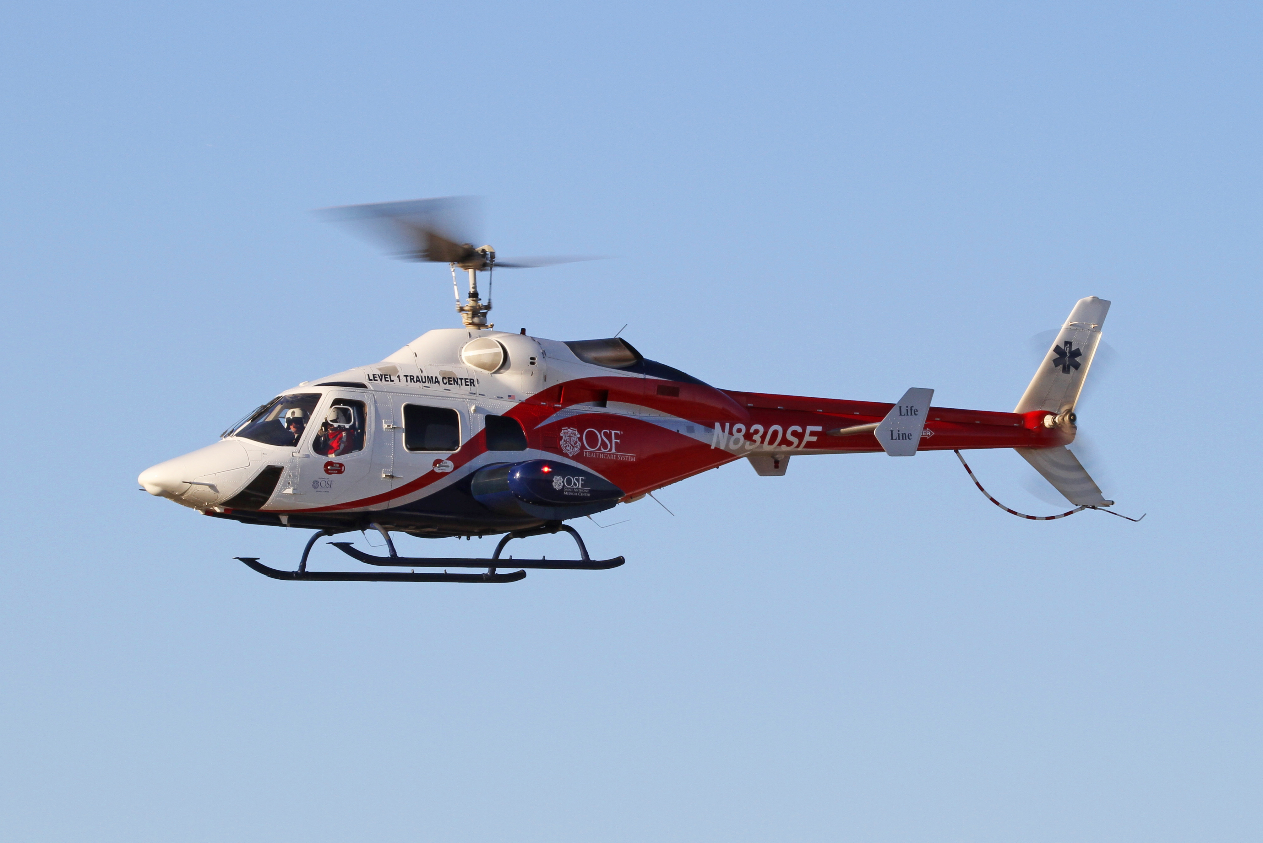 Bell 230 (N830SF) Life Flight